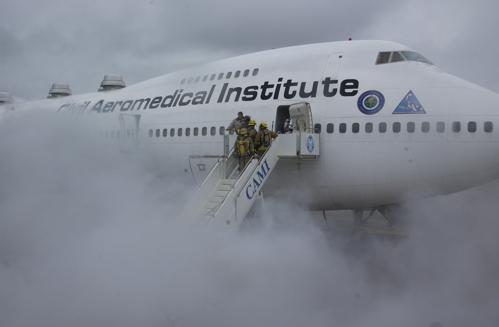 The B-747 Aircraft Environmental Research Facility (AERF) is used by CAMI's Cabin Safety research scientists.